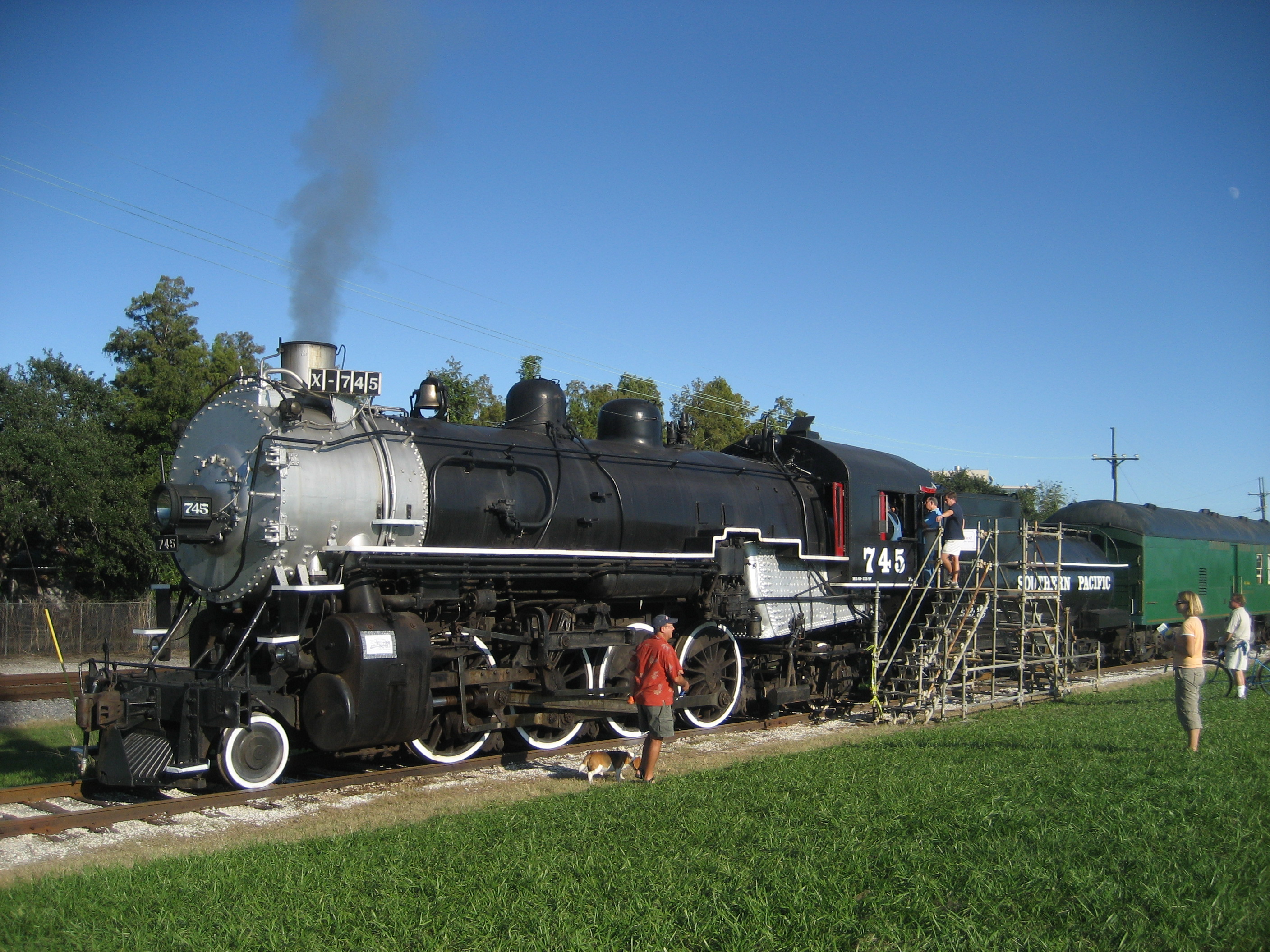 1921 Steam locomotive "SP 745" on tracks at Audubon Butterfly Park, New Orleans